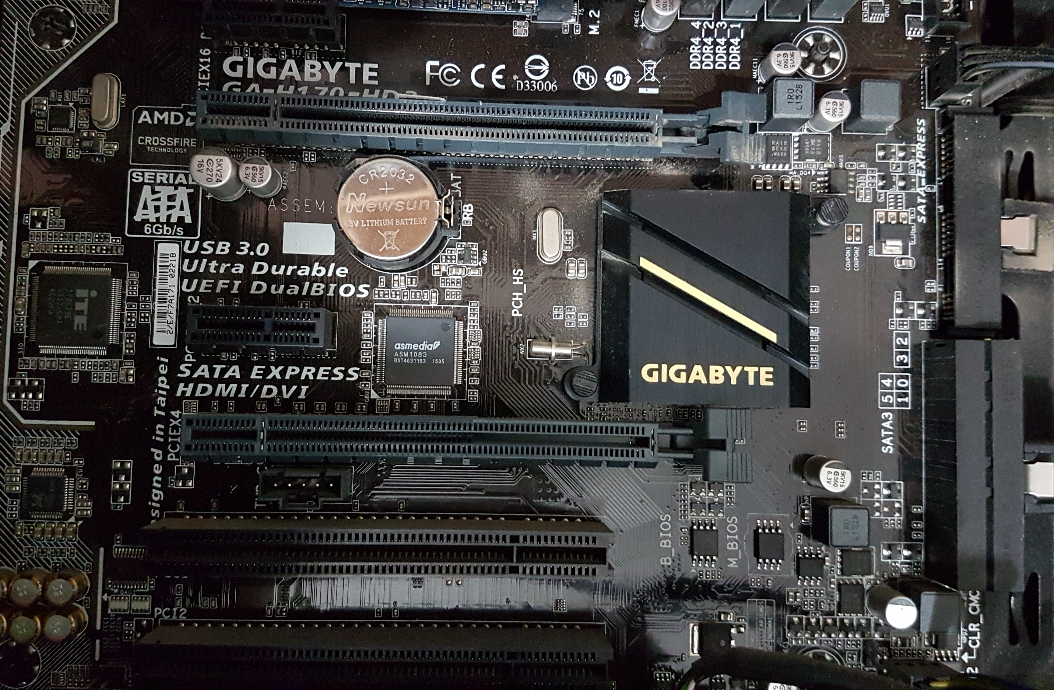 A part of a modern motherboard from Gigabyte, model GA-H170-HD3. PCI and PCIe slots can be seen, along with the PCH which is part of the mainboard's chipset.